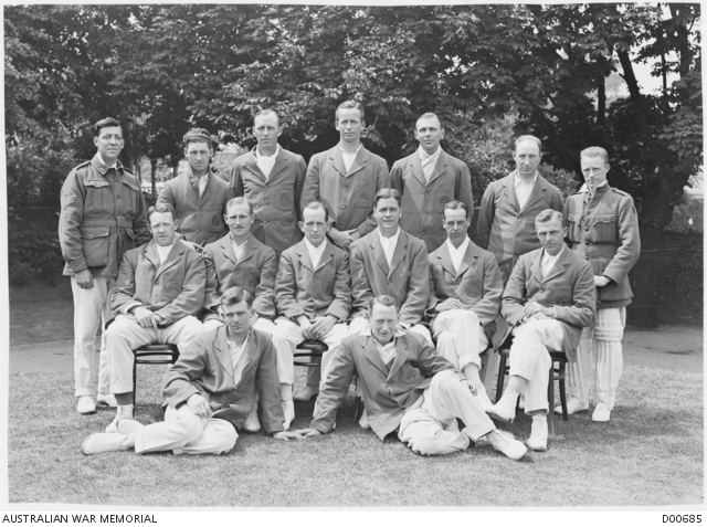 Sourced from: Copyright: The AWM record for this photo states that the copyright status is 'clear'. The photo was taken in 1919. AWM Caption: London, England. June 1919. Group portrait of members of the AIF Cricket Eleven, which toured the United Kingdom from May to September, 1919, at Lords Ground. Back row, left to right: Staff Sergeant C. S. Winning, Dental Section, AIF Headquarters (HQ); Sergeant H. S. Love, Australian Army Service Corps (AASC); Gunner (Gnr) J. T. Murray, 103rd Battery; Gnr E. Bull, 26th Battery; Lieutenant J. M. Gregory, 4th Divisional Artillery; Captain (Capt) E. J. Long, Deputy Assistant Provost Marshal, Weymouth; Corporal E. A. Oldfield. Middle row: Capt C. T. Docker, General List; Capt C. E. Pellew, 27th Battalion; Lance Corporal H. L. Collins, 10th AASC; Capt C. B. Willis, Dental Section; Sgt A. W. Lampard, 10th AASC; Capt W. L. Trennery, 17th Battalion. Front row: Gnr J. M. Taylor, 101st Howitzer Battery; Warrant Officer W. S. Stirling, AIF Headquarters, Records Section. They are wearing the official team blazer with the AIF rising sun emblem on the pocket. .